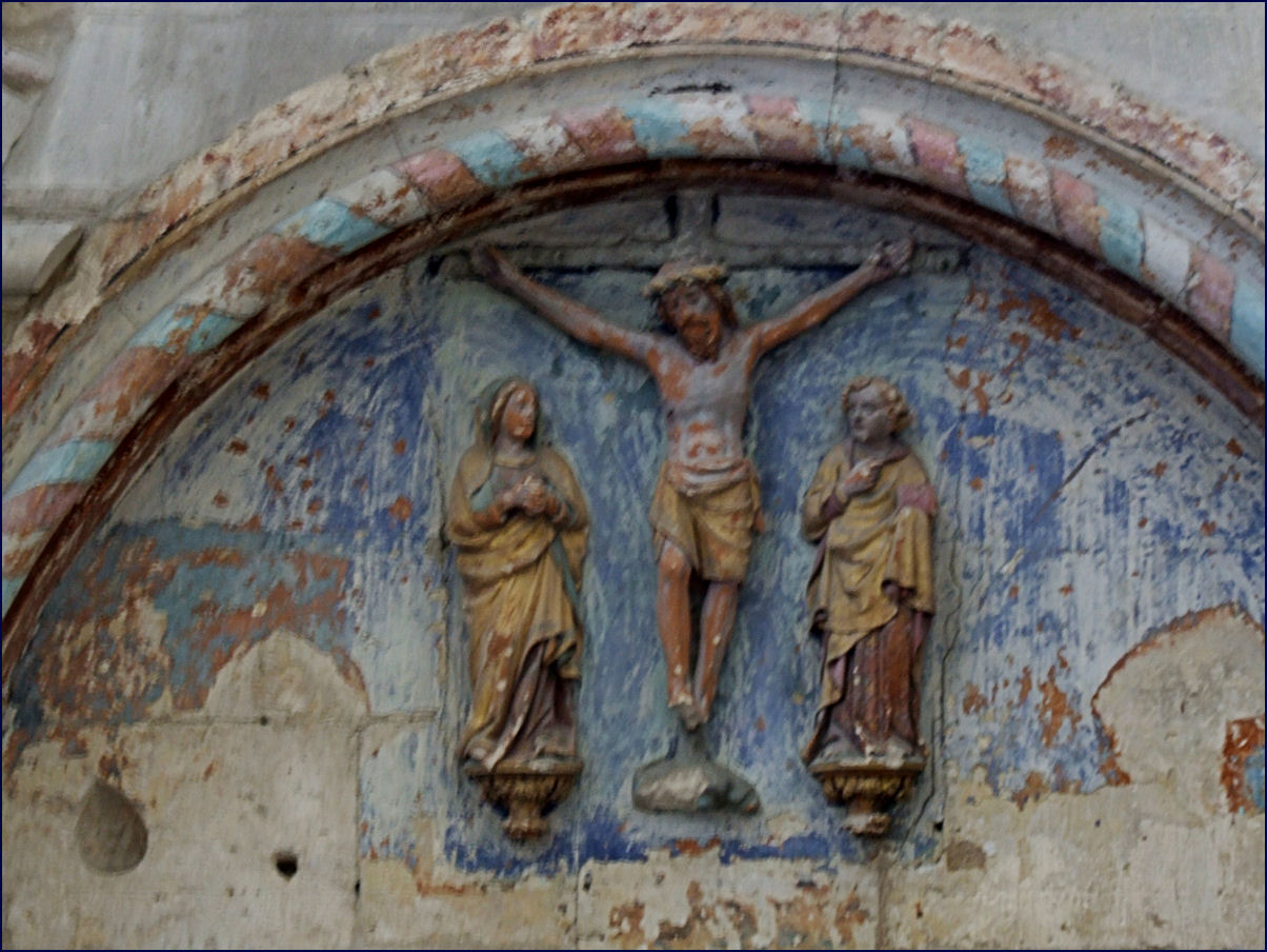 Cathédrale Notre-Dame de Laon (Cathedral Notre Dame of Laon), Laon, France - Interior